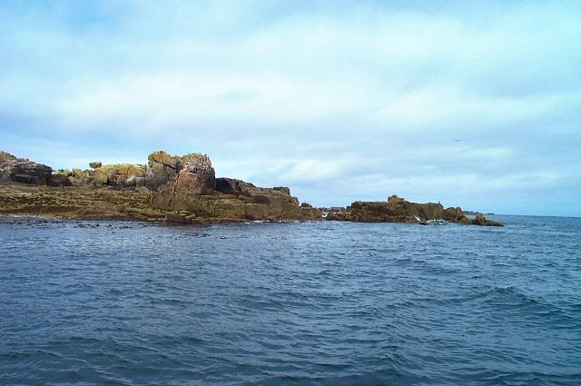 Rosevear - Scillies. The northern tip of this nature refuge for seals and seabirds.